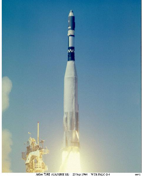 Launch of Atlas SLV-3 Agena D with KH-7 11 satellite